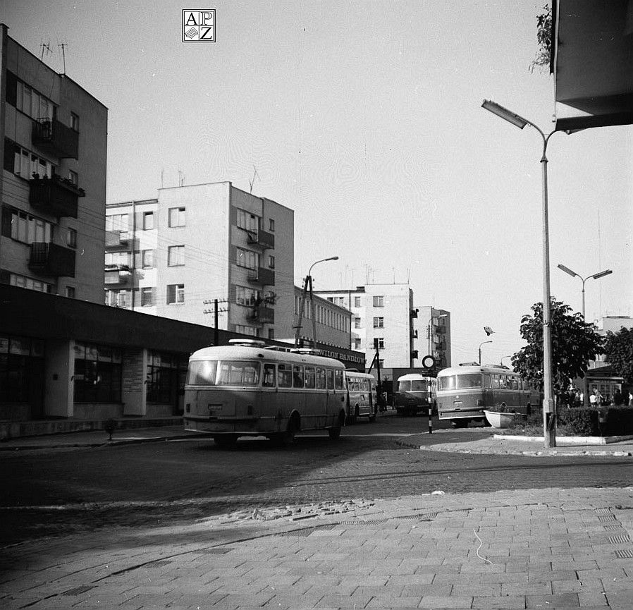 Fragment of Plac Wolności (Liberty Square) in Biłgoraj, Poland. About 1970.